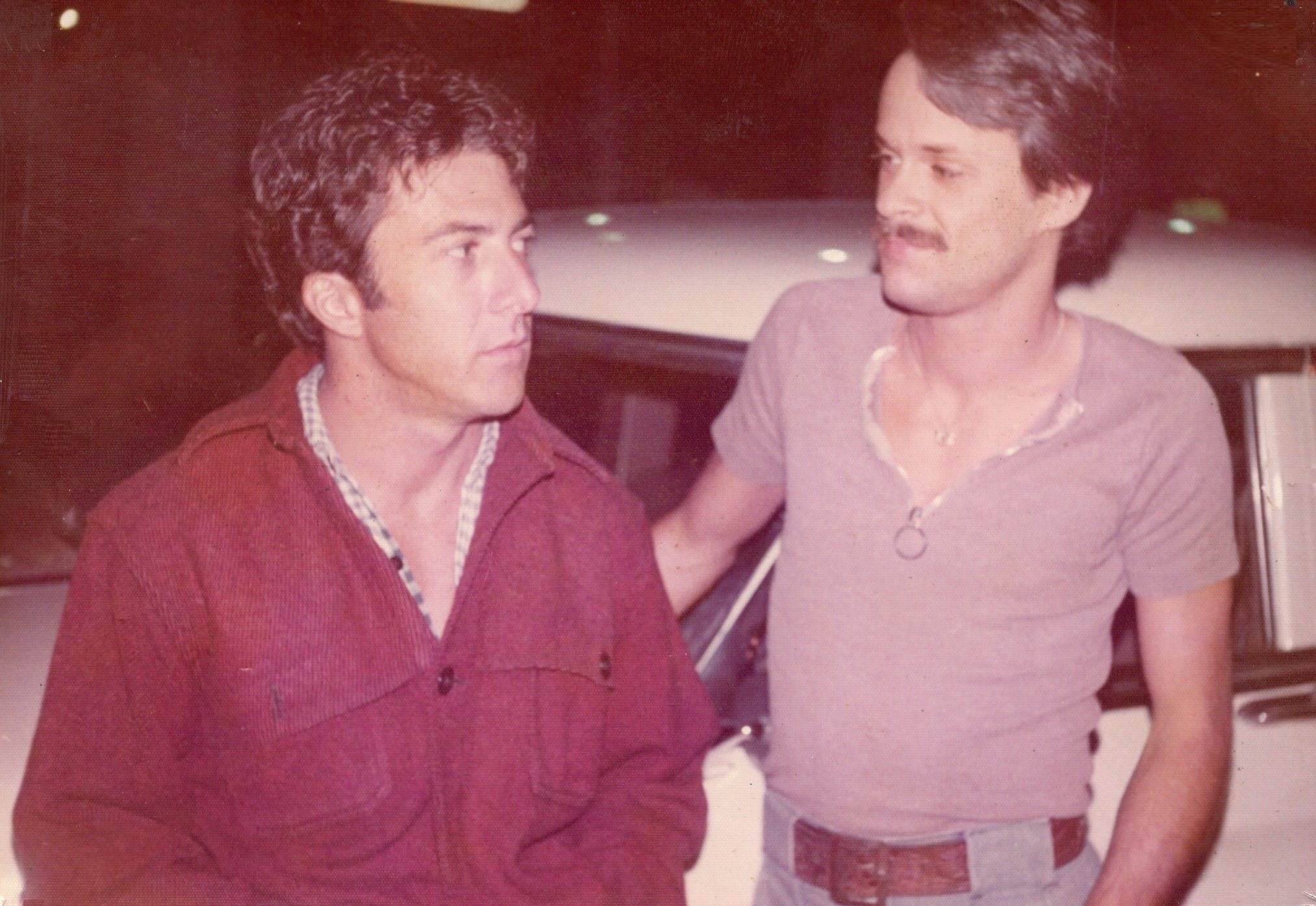 Dustin Hoffman & Lars Jacob, as released by image creator Lars Jacob ProdPlace: Set of Lenny, Fort Lauderdale, Florida